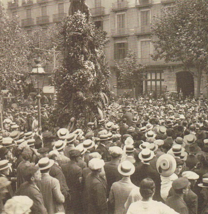 Rafael Casanova was a Catalan Civil governor man who fled the Spanish troops in 1714. After a long siege, the city of Barcelona fell under the Bourbon troops on September 11, 1714, commemorated today as the National Day of Catalonia